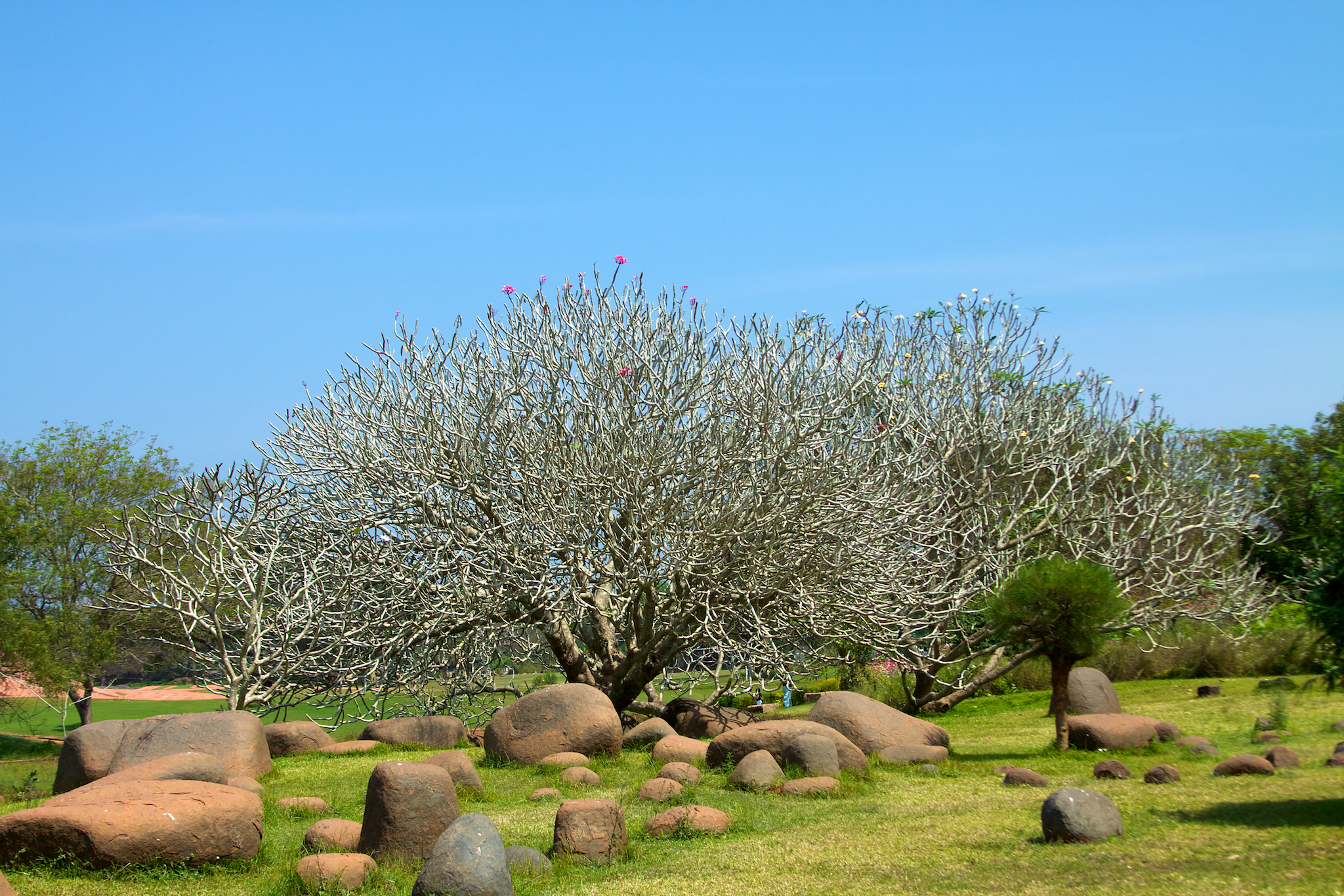 Part of Auroville's central Park of Unity surrounding the Matrimandir that visitors are allowed to.